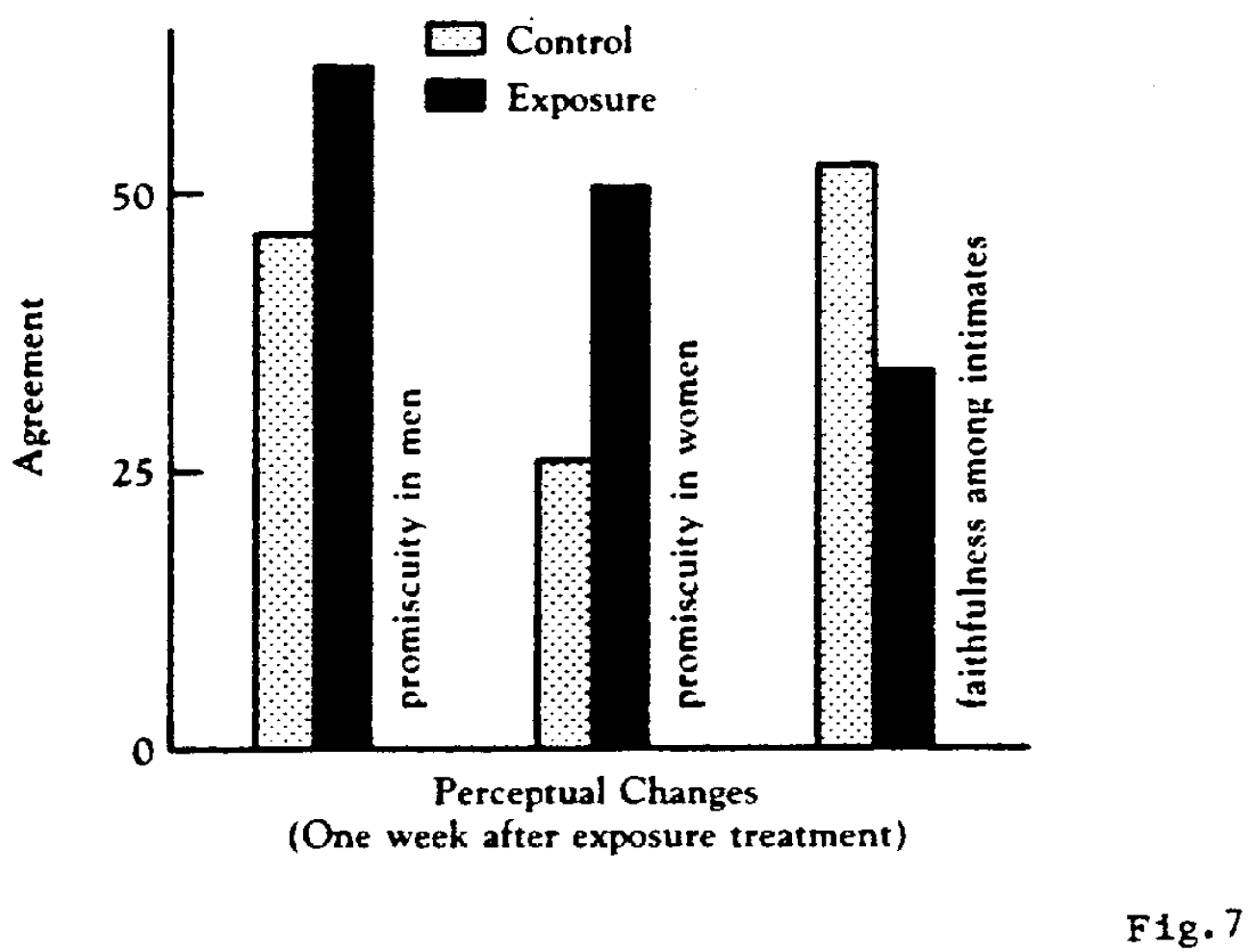 Source: Figure 7 in Zillmann, Dolf: "Effects of Prolonged Consumption of Pornography", [1], included in the Report of the Surgeon General's Workshop on Pornography and Public Health, United States Public Health Service, Office of the Surgeon General, August 4, 1986